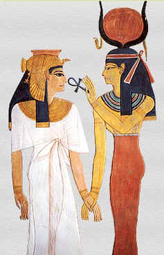 goddess Isis gives ANKH to NEFERTARI